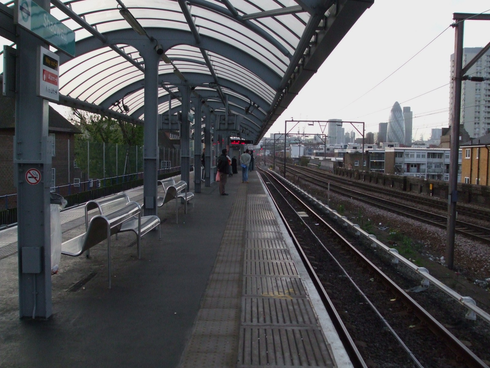 Shadwell DLR station island platform looking west. Extension work in progress at the eastern end as of December 2008. Note London, Tilbury & Southend (operated by c2c) main line on the right.